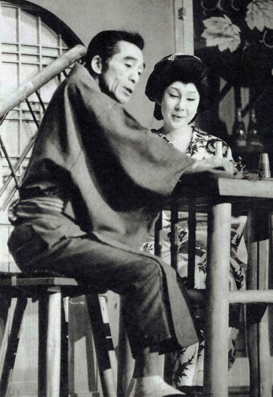 Michiko Saga(right) and Seiji Miyaguchi(left).